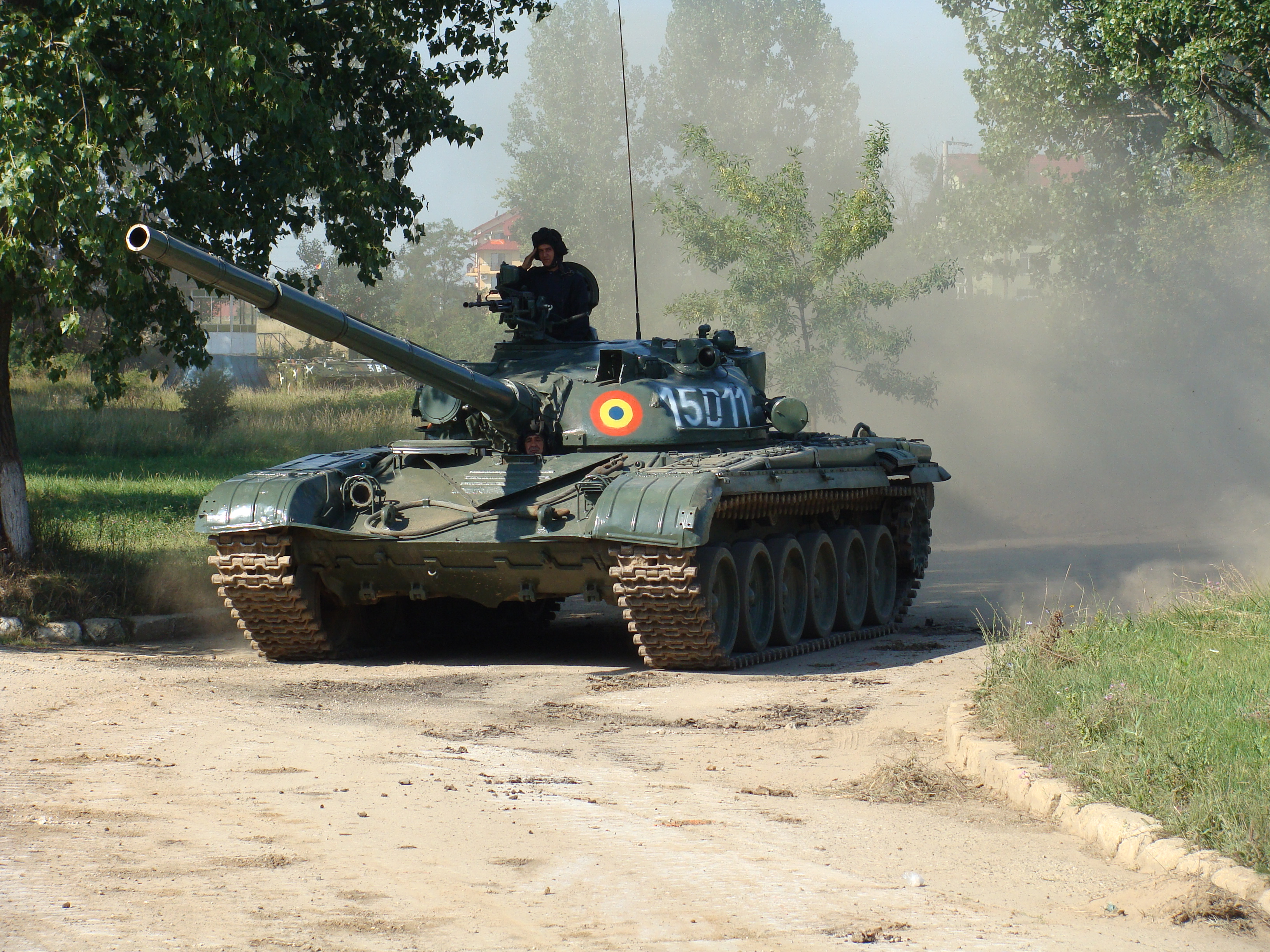 A Romanian T-72M tank during the 90th anniversary of the Romanian tank forces.